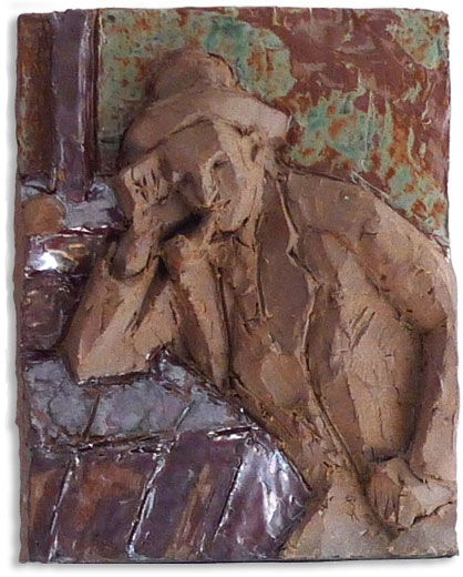 Photo of a terracotta relief